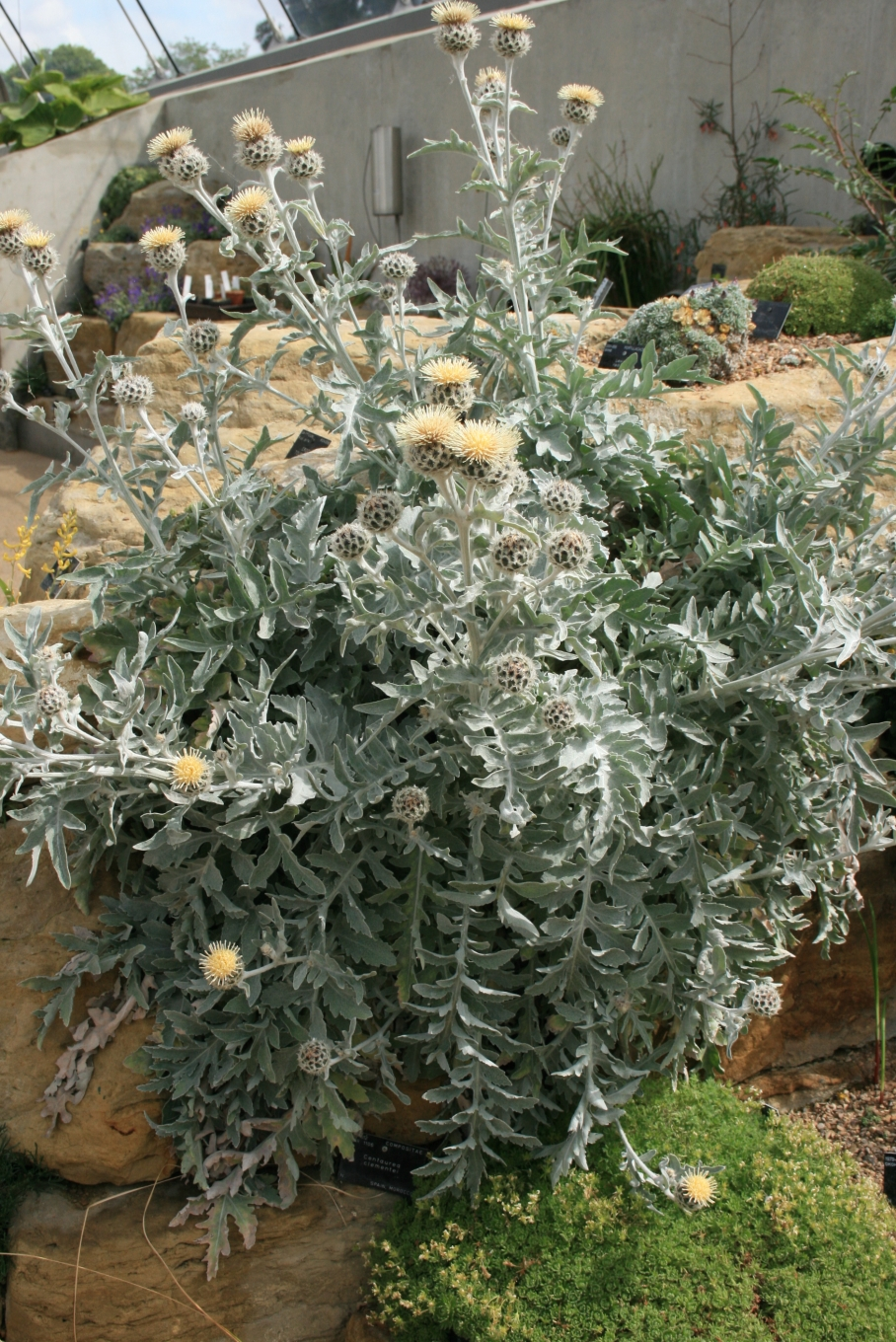 Centaurea clementei: Habitus. Kew Gardens, London.